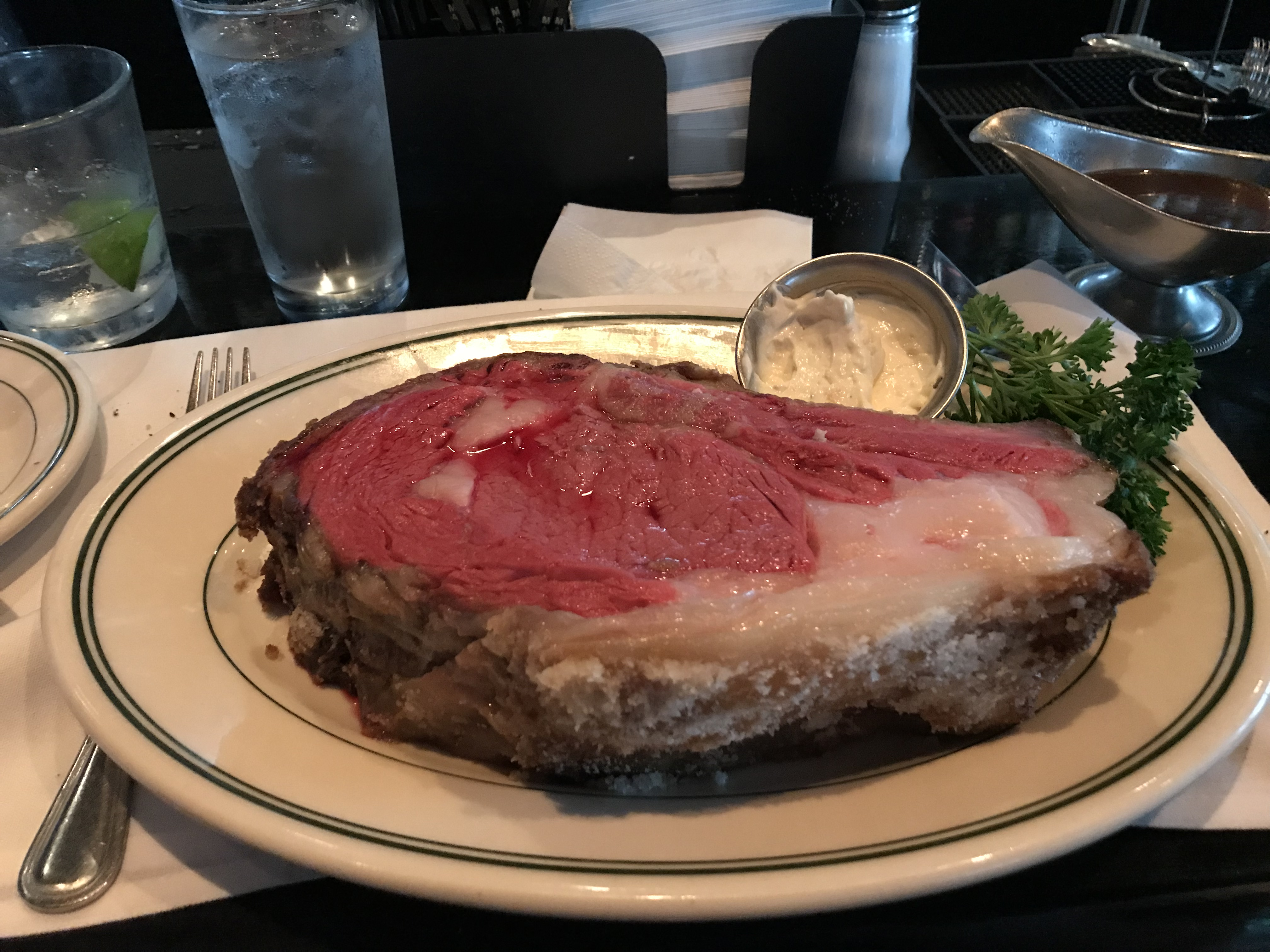 Prime rib of beef cooked rare at Mannys in Minneapolis MN, USA